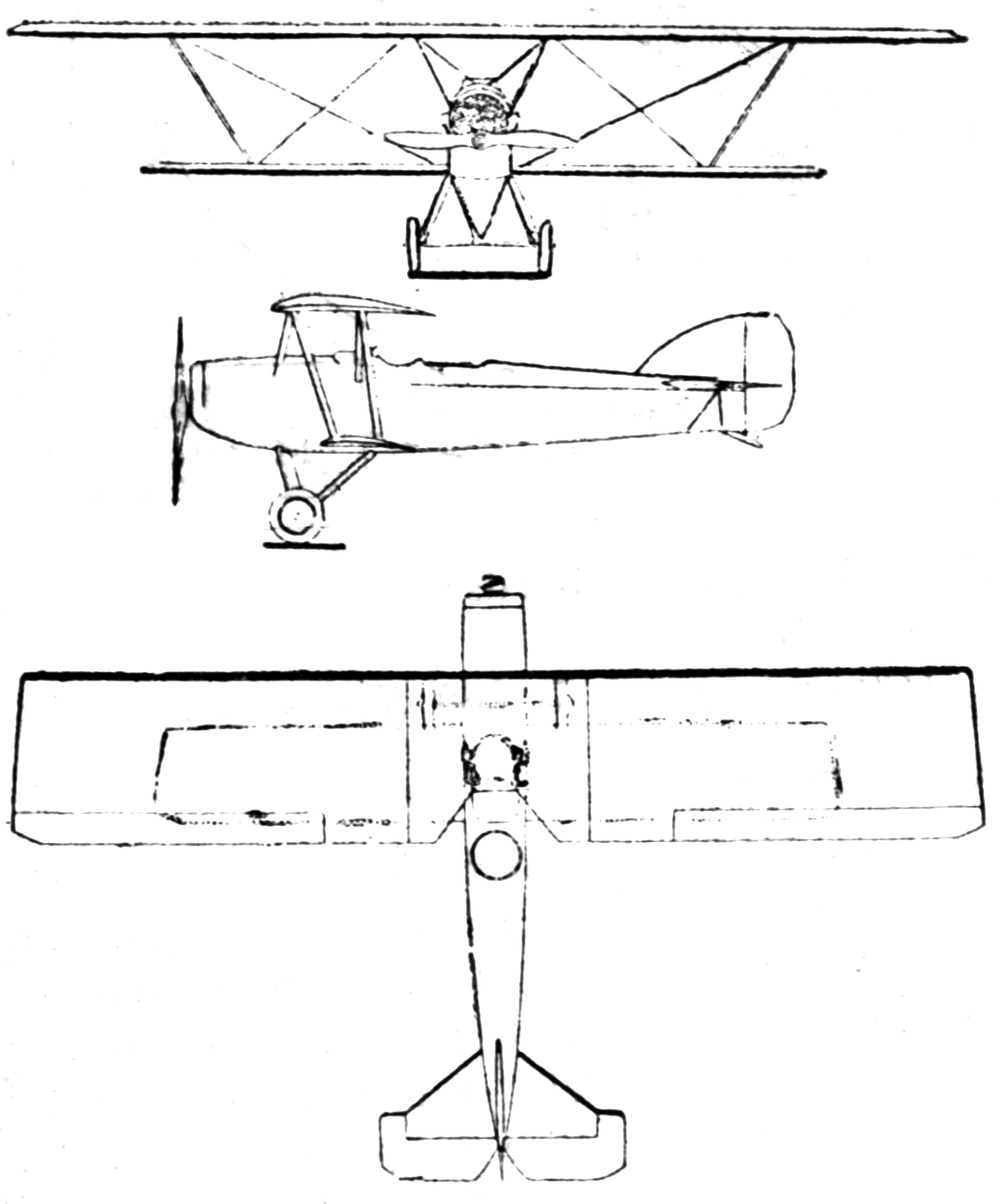 Potez 25 3-view drawing from Le Document aéronautique October,1926